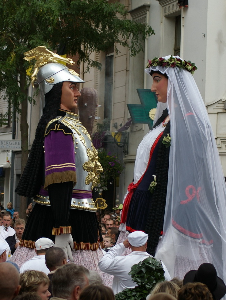 Danse Gouyasse, Ducasse d'Ath 2008